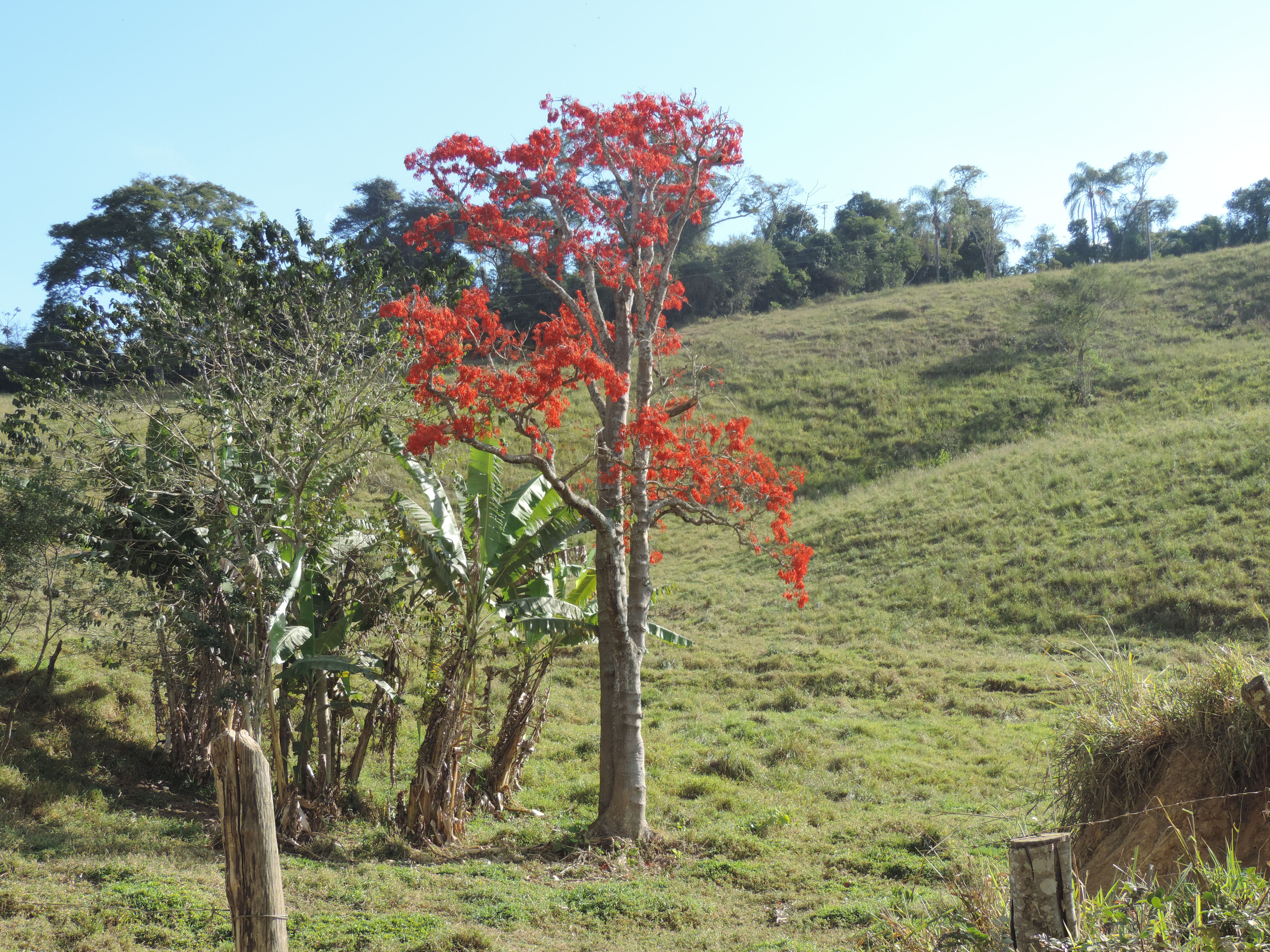 Alto Rio Doce - State of Minas Gerais, Brazil